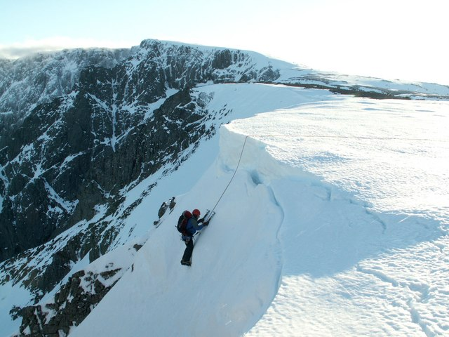 A climber nearing the top of No 5 Gulley To reach the Ben Nevis plateau which can be seen in the pic.